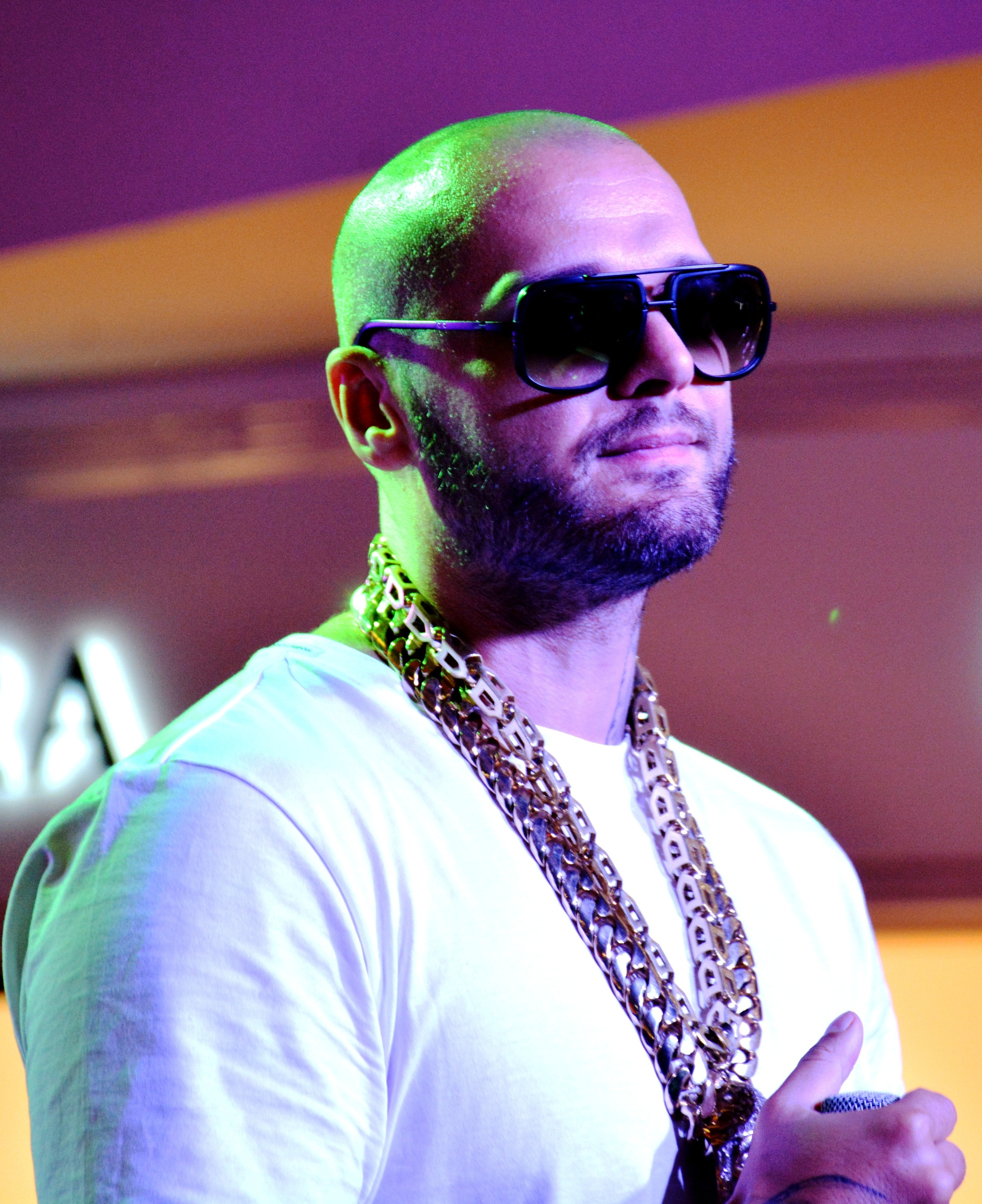 Patrik Vrbovský (stage name Rytmus), Slovak rapper